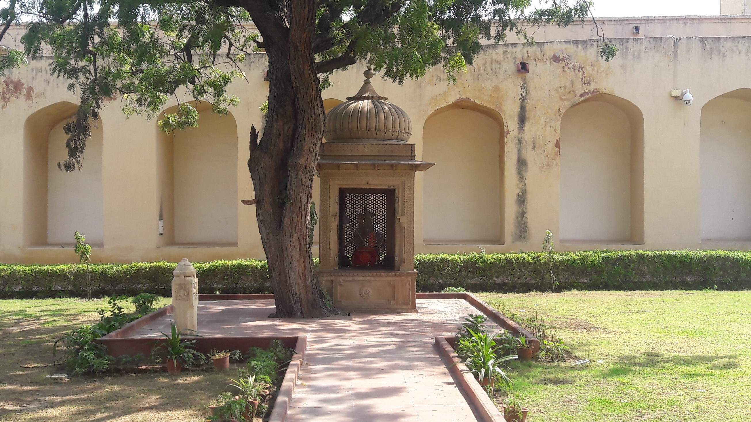 This is a small temple structure located within the Jantar Mantar complex with the words "Bhairav temple" written on a stone plaque. It is supposed to have been constructed at later time period when the use of the observatory died down.No reference for that though.